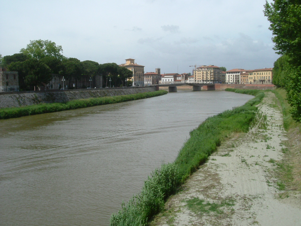 Taken by me on 20 May 2006. Arno river running through Pisa, near "Ponte della Fortezza".